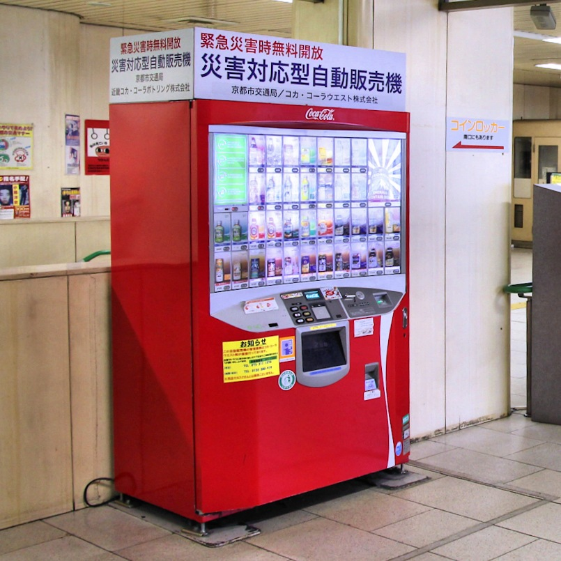 Coca-Cola vending machine at Kyoto Station, Japan.